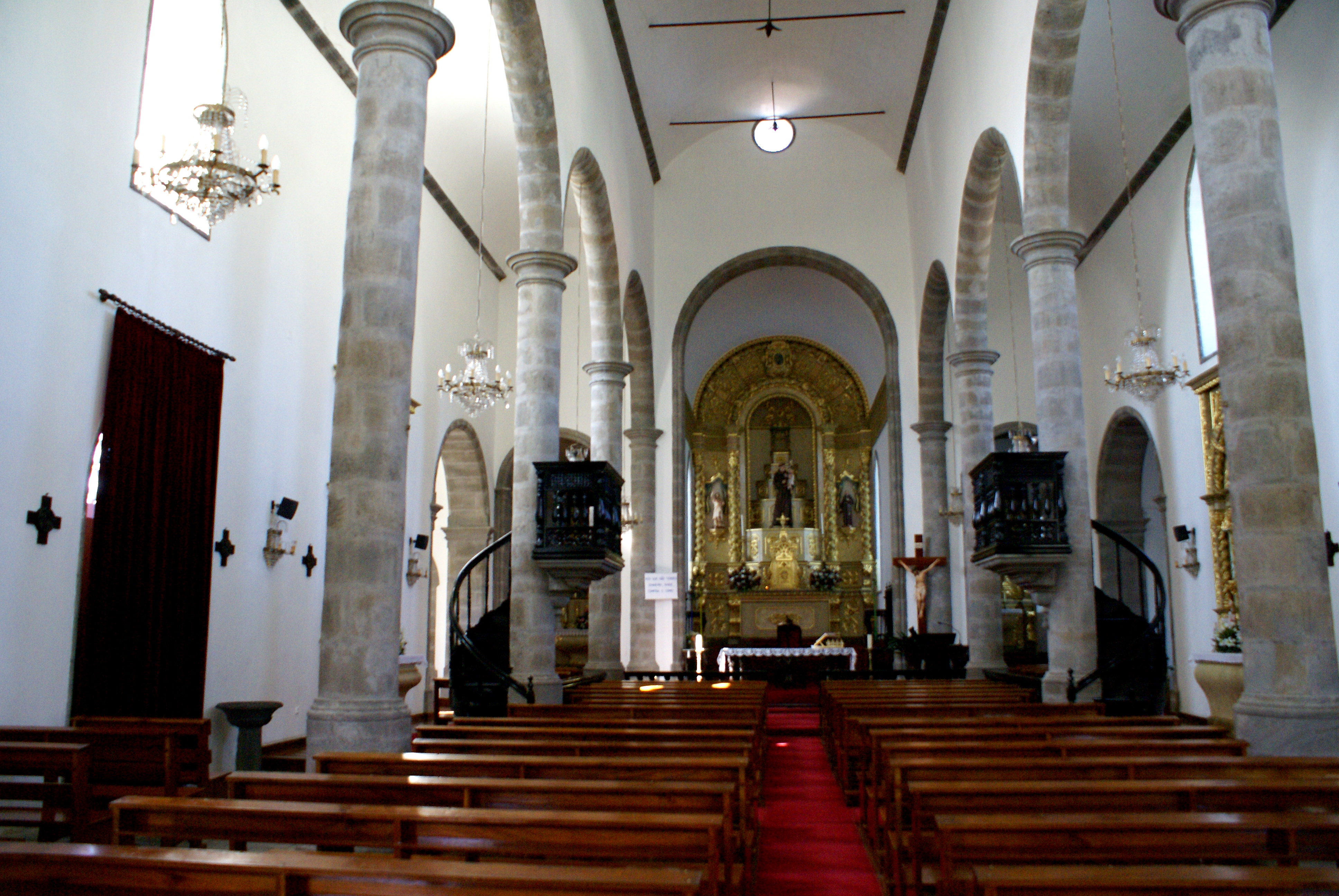 Nave of the Church of Santo António do Nordestinho, Nordeste, São Miguel (Azores), Portugal